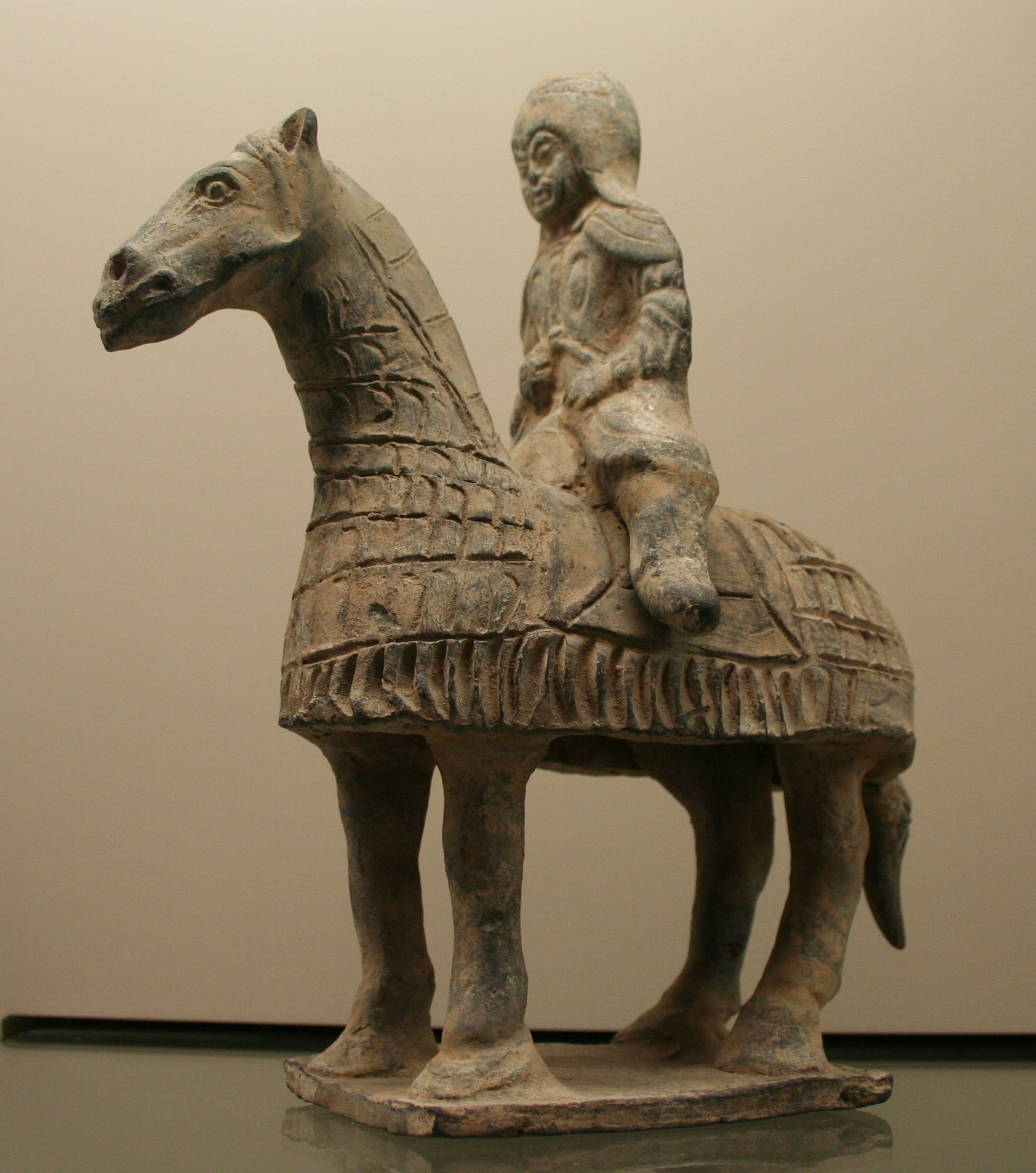 Warrior on a Caparisoned Horse (Jiaqi Juzhuang Yong). Terra Cotta. Nothern Wei Dynasty (386 – 534). Cernuschi Museum, Paris, France.